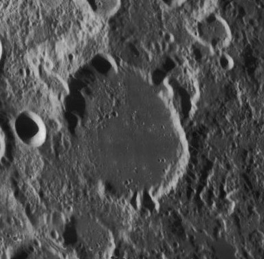 Oblique view of Cannon (crater), on the moon.